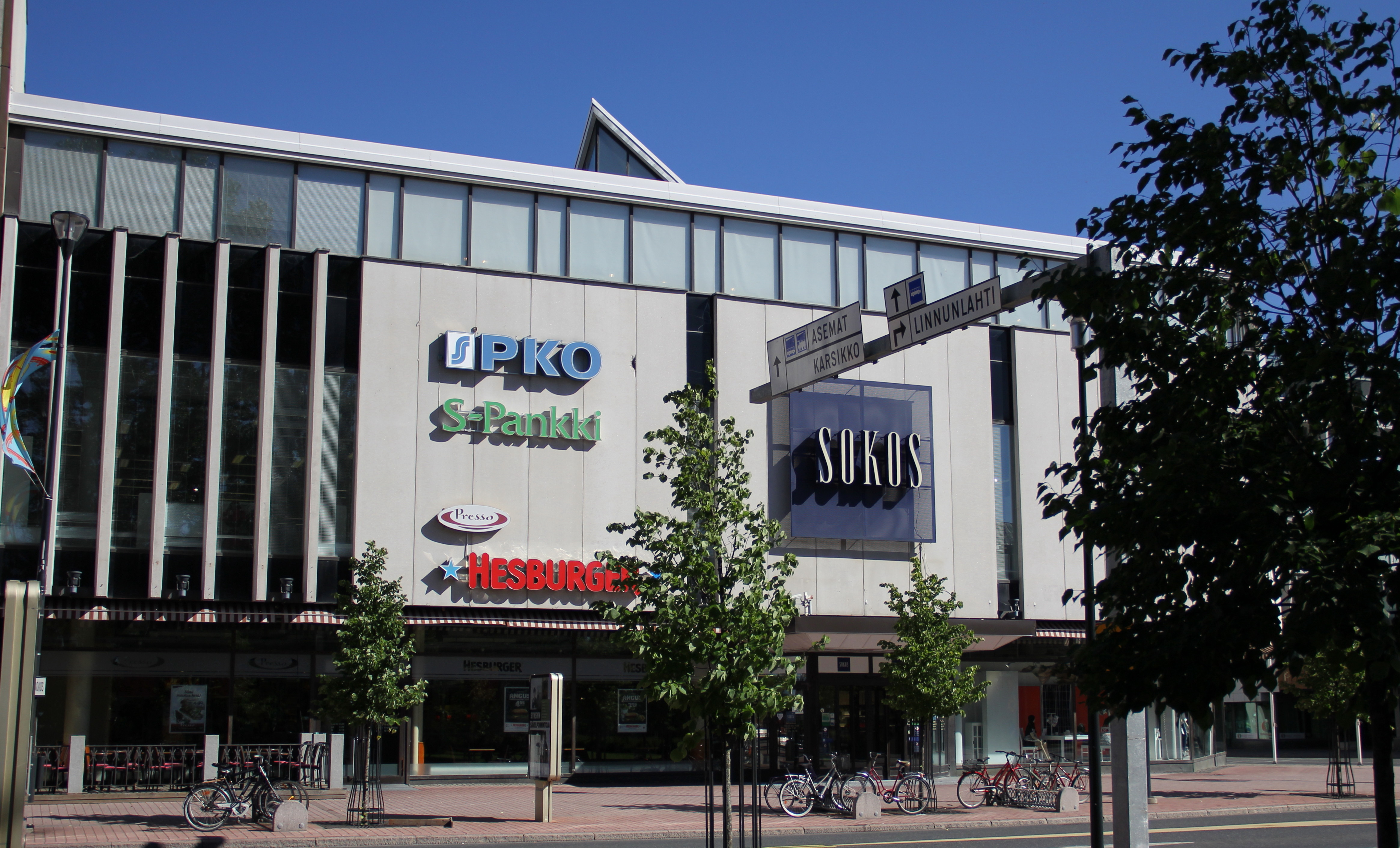 Sokos Joensuu, Joensuu, Finland. - Facade on Siltakatu.